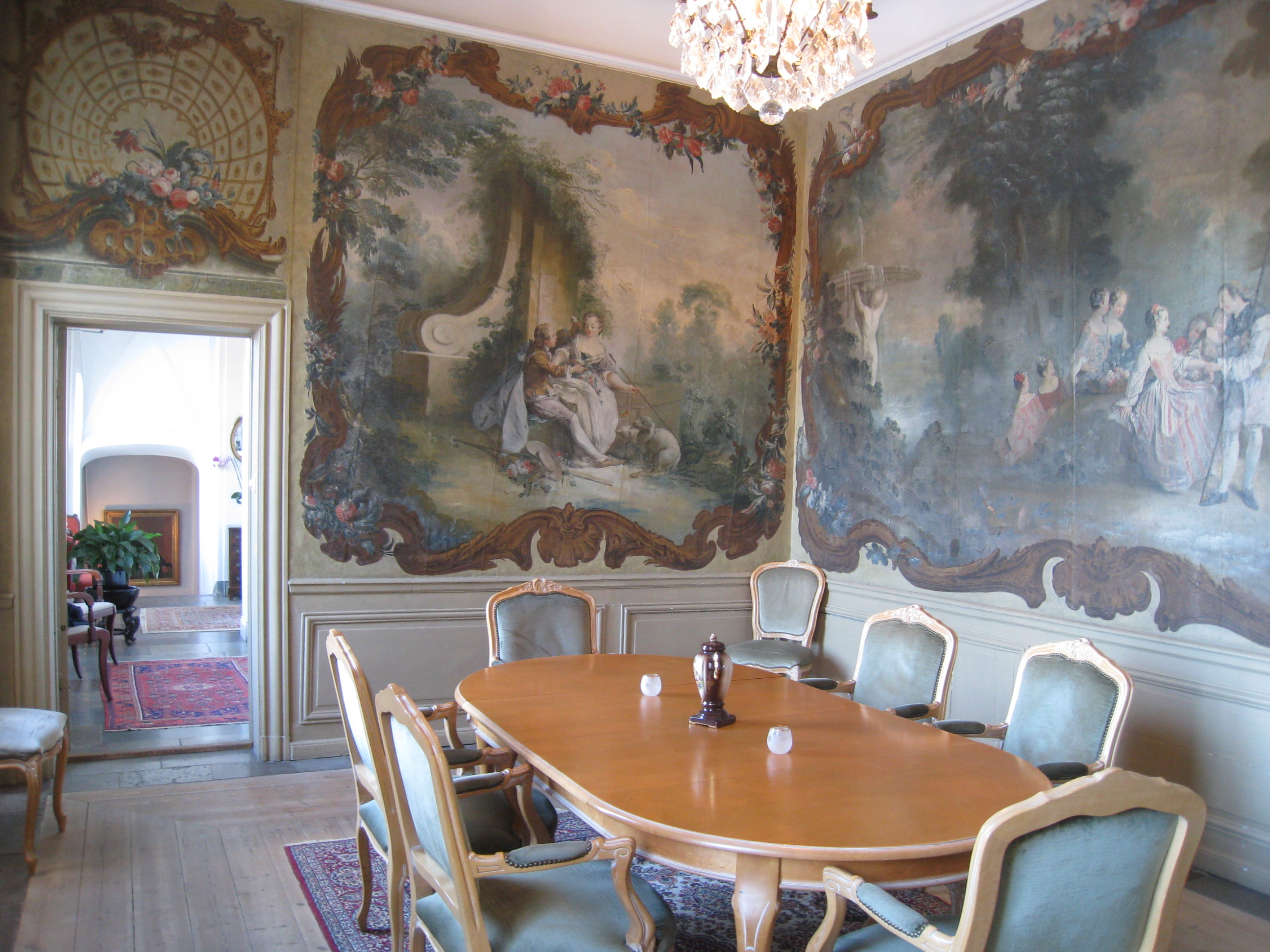 Agneta Wrede's drawing-room, Åkeshovs slott, Bromma.